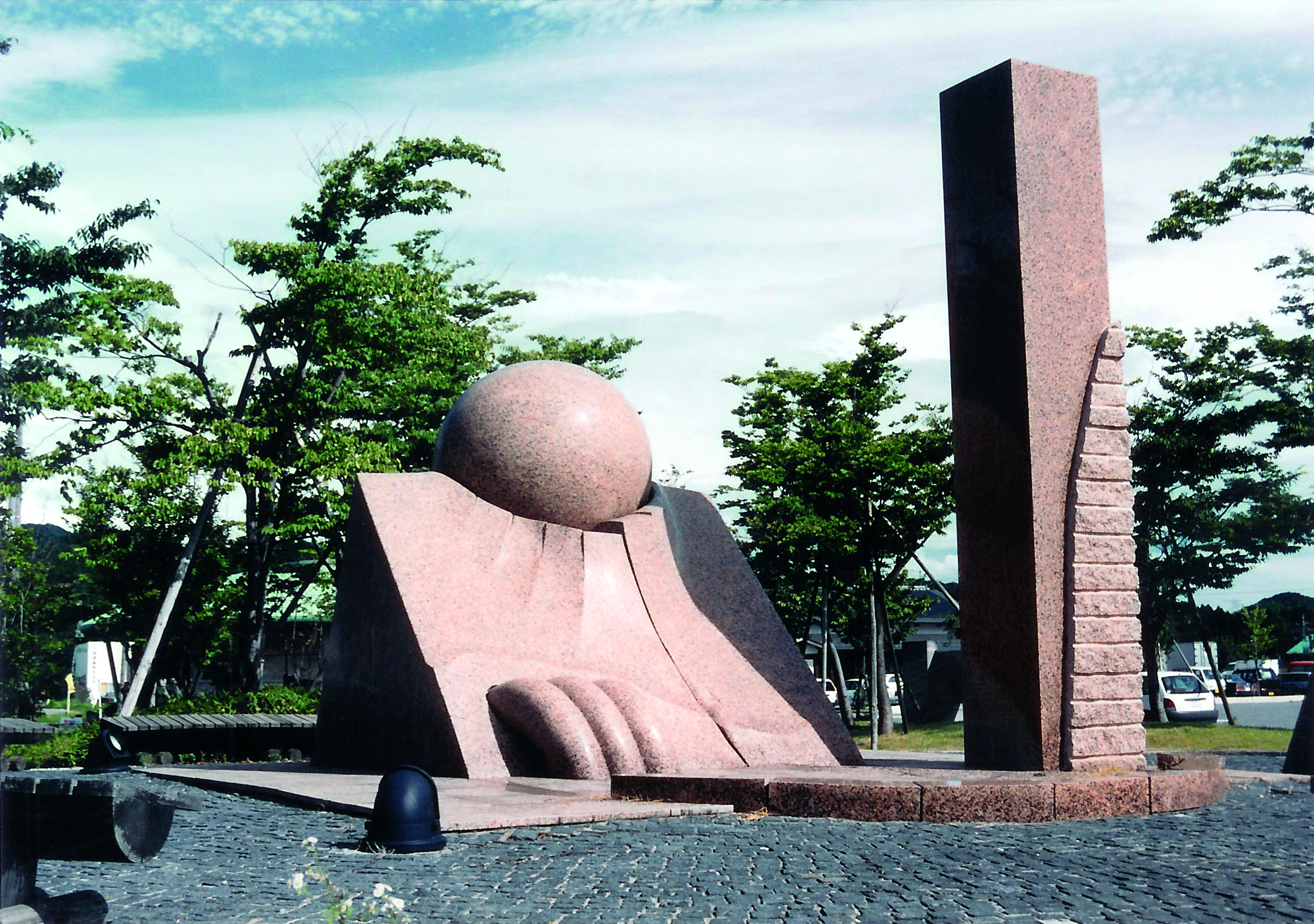 THE 38th PARALLEL Kajigawa, Niigata, Japan. Sculpture environment for Peace on the concept of a Tricot Earth. "38th Parallel" is a pink granite of Clarity, H 400, paving: 570 x 500, sphére 120, axis of 20 meters long, 40 tons of granite. The city of Kajigawa, Japan, is located on the 38th parallel (latitude). This line separates North Korea from South Korea.Tetsuo Harada sculpts this sculpture for peace and reconciliation between the two Korea. The two blocks of the pyramid meet exactly at the 38th parallel and are united by a spère. The Tricot the Earth, carrying peace and union, is also present in this sculpture. As Tetsuo Harada, the city of Kajigawa and the Ministry of Public Works who commissioned the sculpture, wish to convey this message of peace. They invite other cities in the world located on the 38th parallel to express that hope by culture, art or sport.The city of Athens, also located on the 38th parallel, has adopted the theme "38th parallel horizon" for the artistic and cultural Olympics of 2004. The 38th through: Italy, Spain, Portugal, Turkey, Iran, Turkmenistan, Tajikistan, China, Korea, Japan, California, Utah, Colorado, Kansas, Indiana, Kentucky, Virginia.